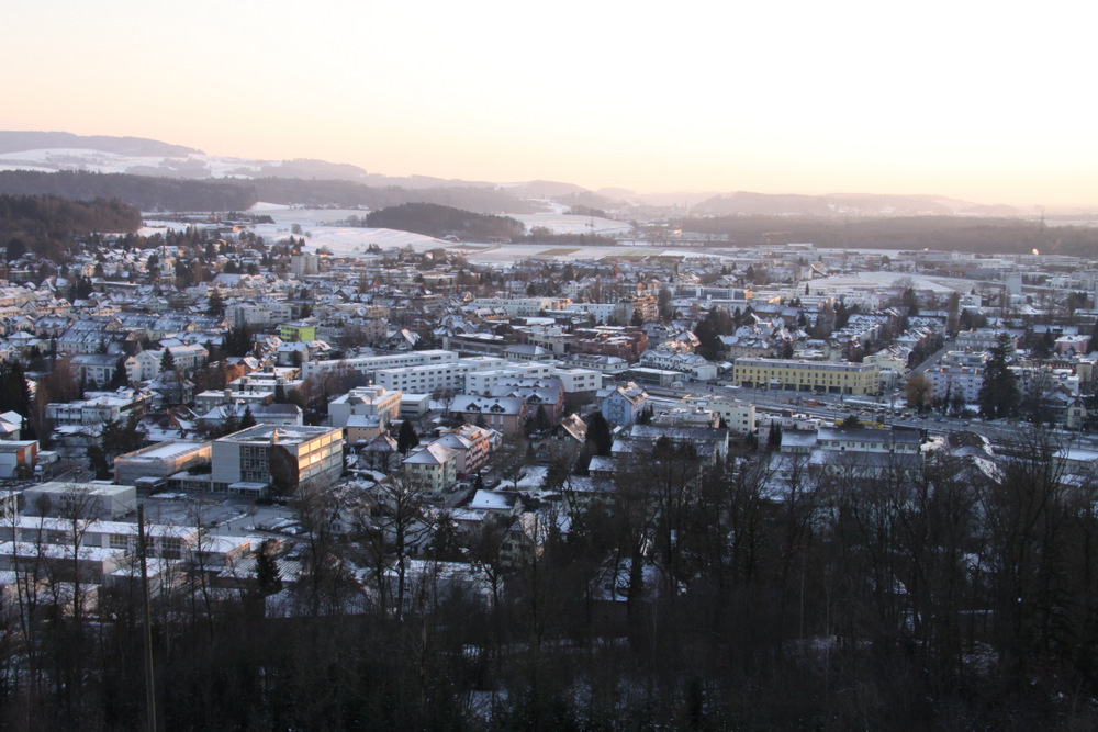 An overview of snowy Lyss in winter